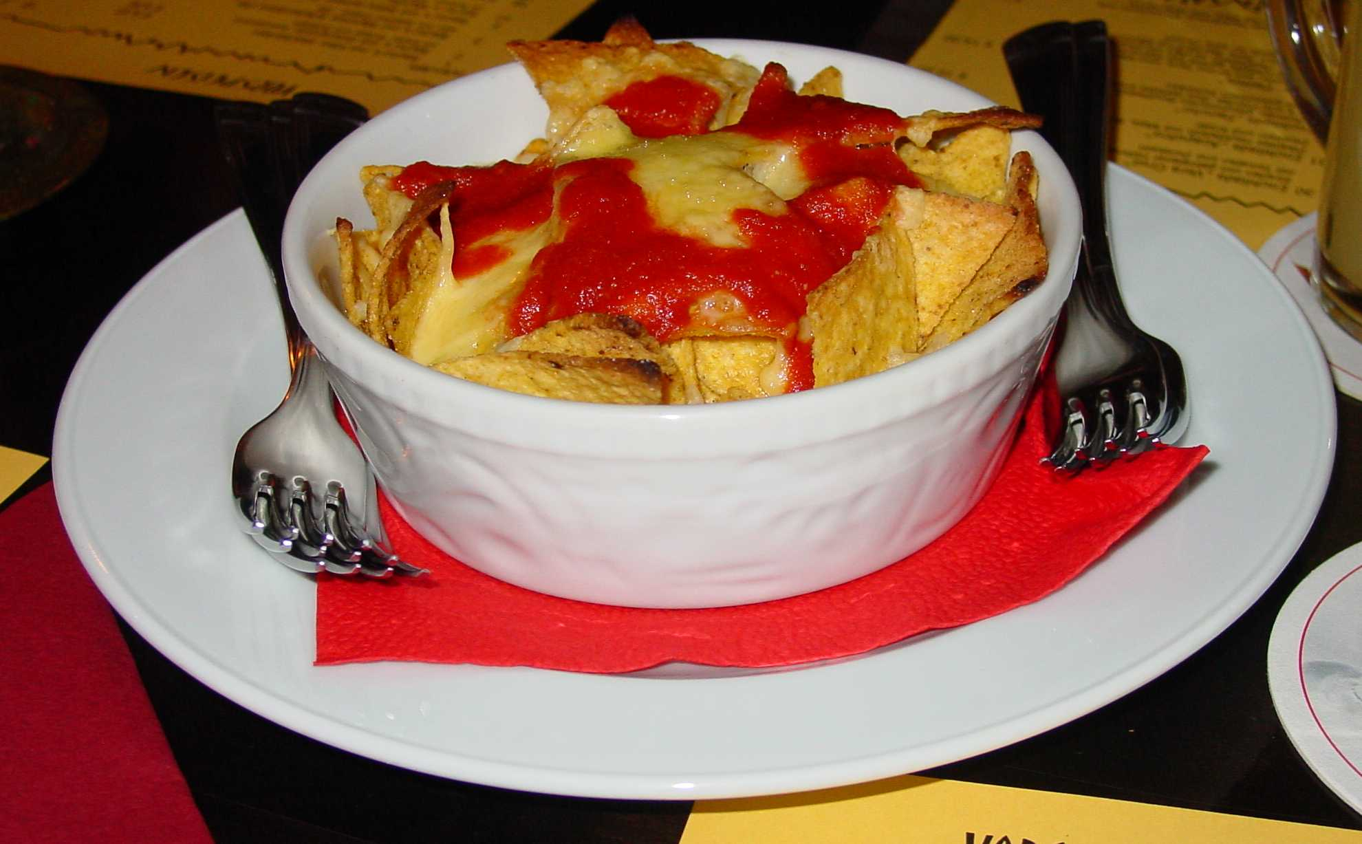 a bowl of nachos